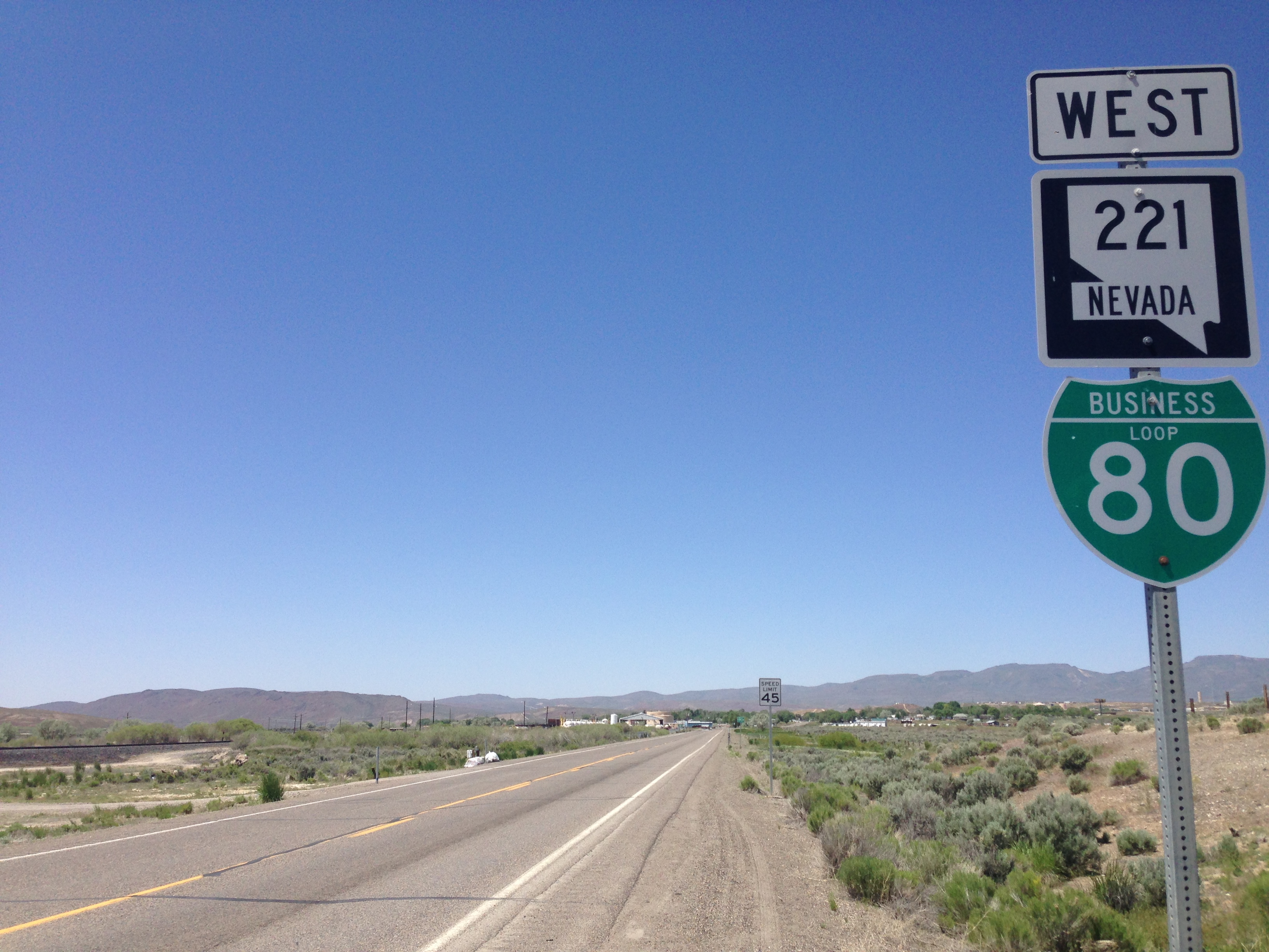 Signs for Nevada State Route 221 and Business Loop 80 along westbound Nevada State Route 221 in Carlin, Nevada